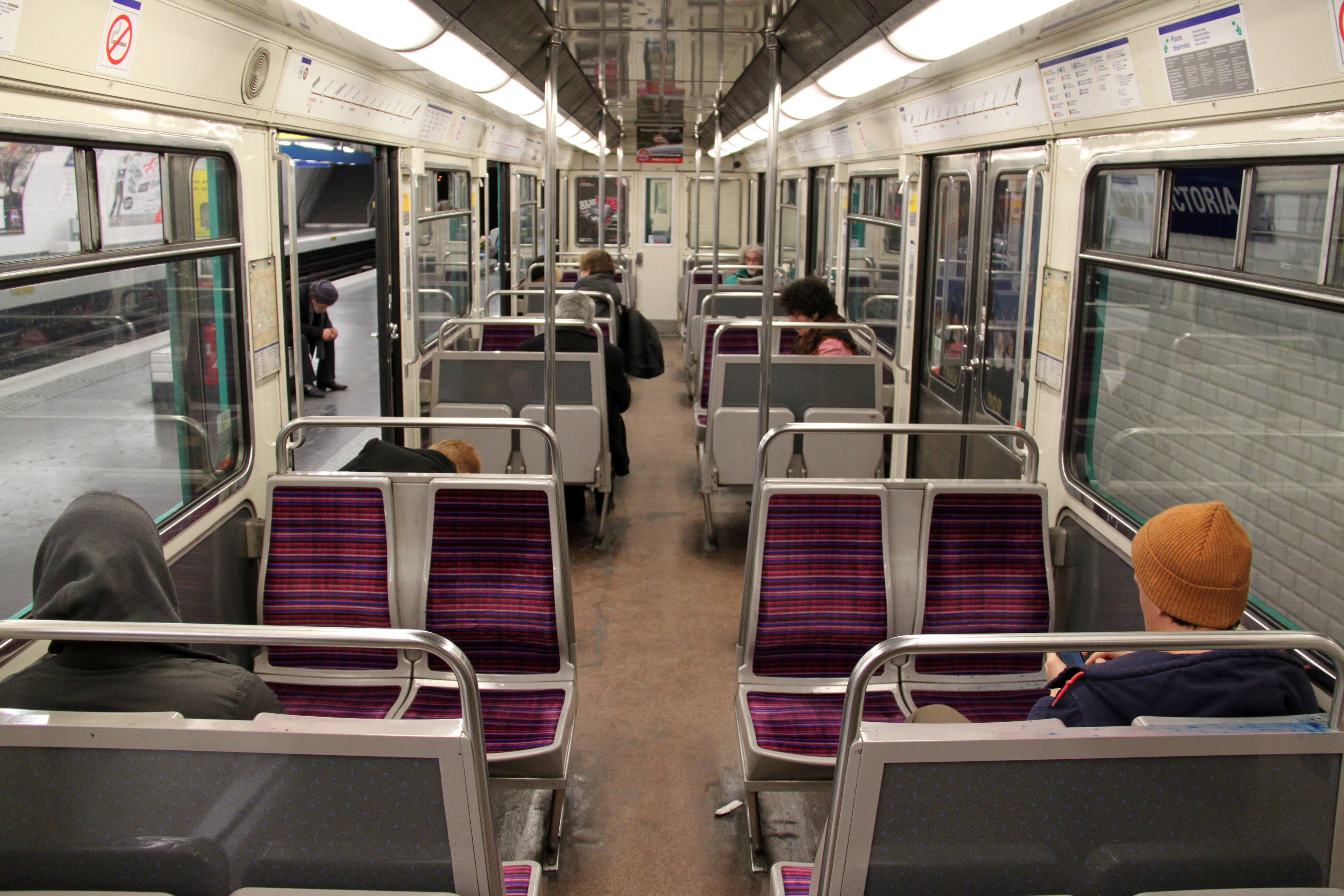 Interior of a MP59 train of the Paris metro network of RATP.